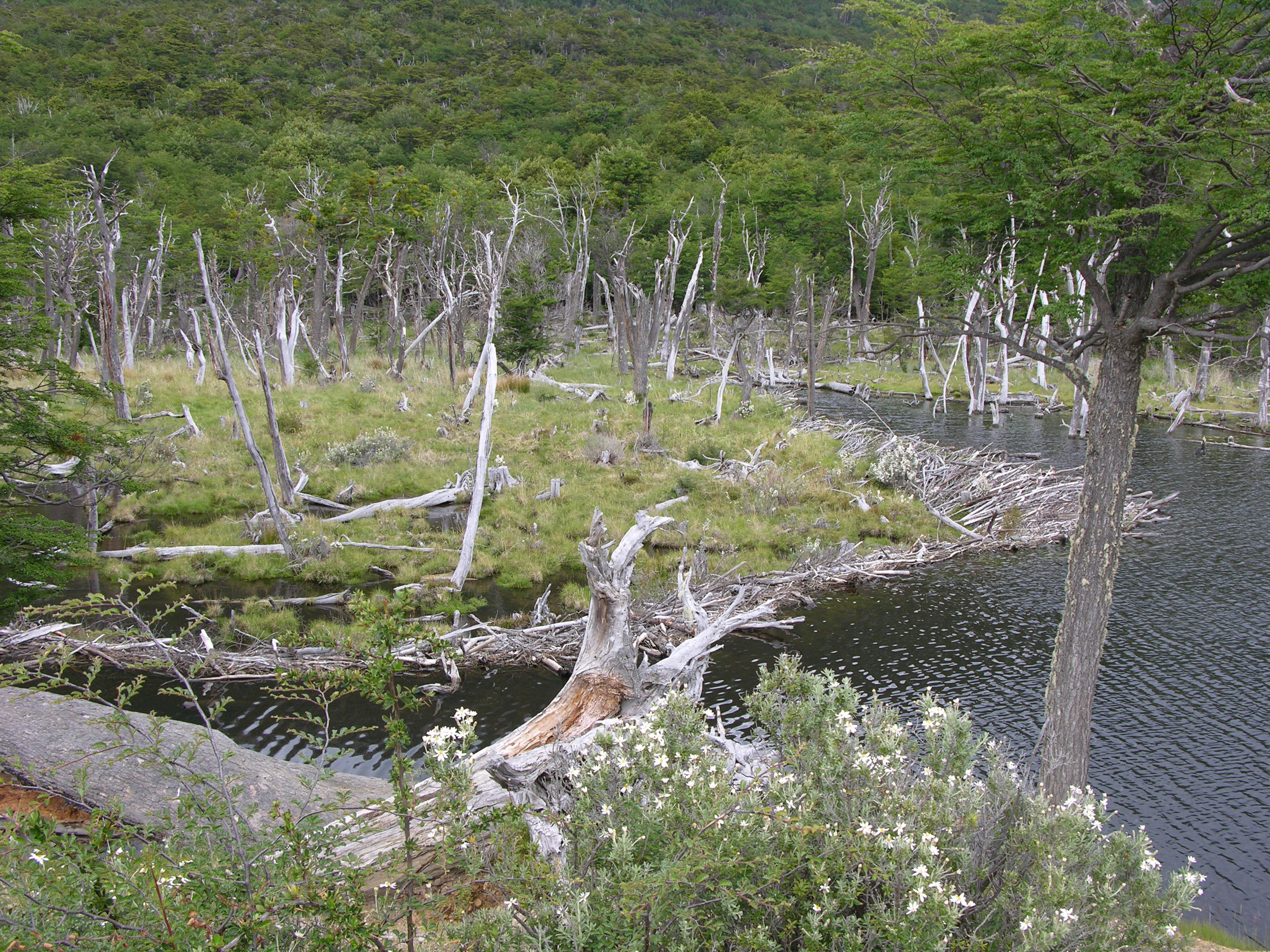 Beaver dam in Tierra del Fuego. Beavers have been introduced into Tierra del Fuero and are causing environmental problems. See Beaver eradication in Tierra del Fuego.